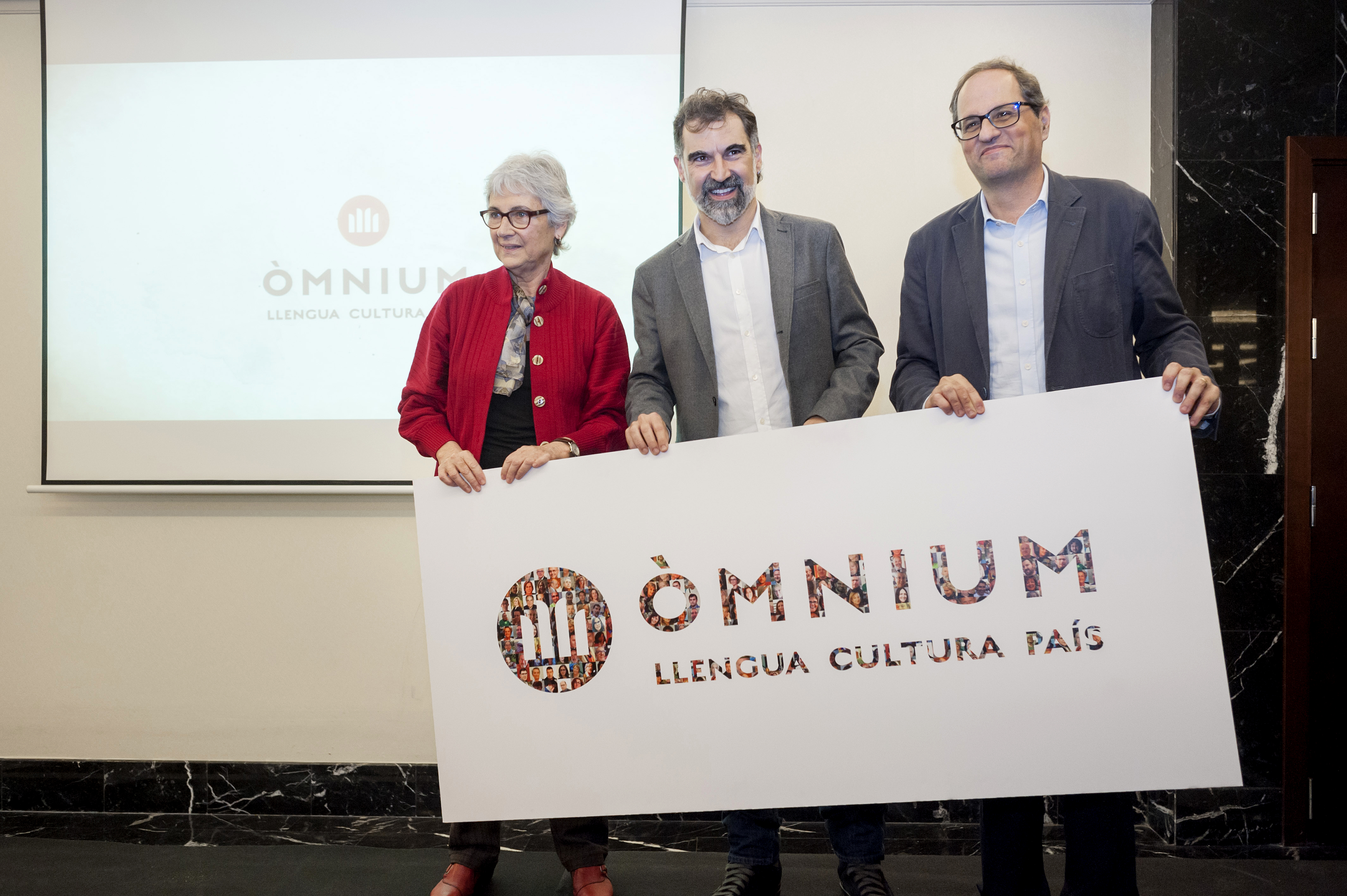 Assemblea General 2015 Òmnium Cultural +